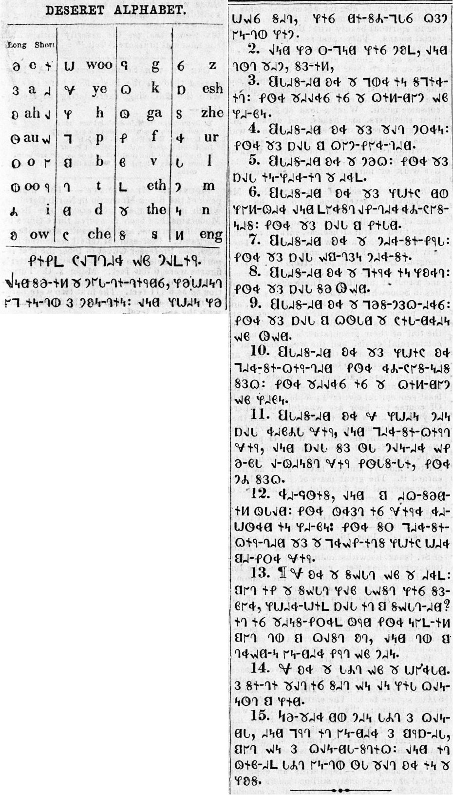 The fifth chapter of Matthew, sometimes also known as "The Sermon on the Mount", as it appears in the 16 February 1859 edition of the Deseret News. The strange shape of the image is due to the fact that the original was split across two pages.